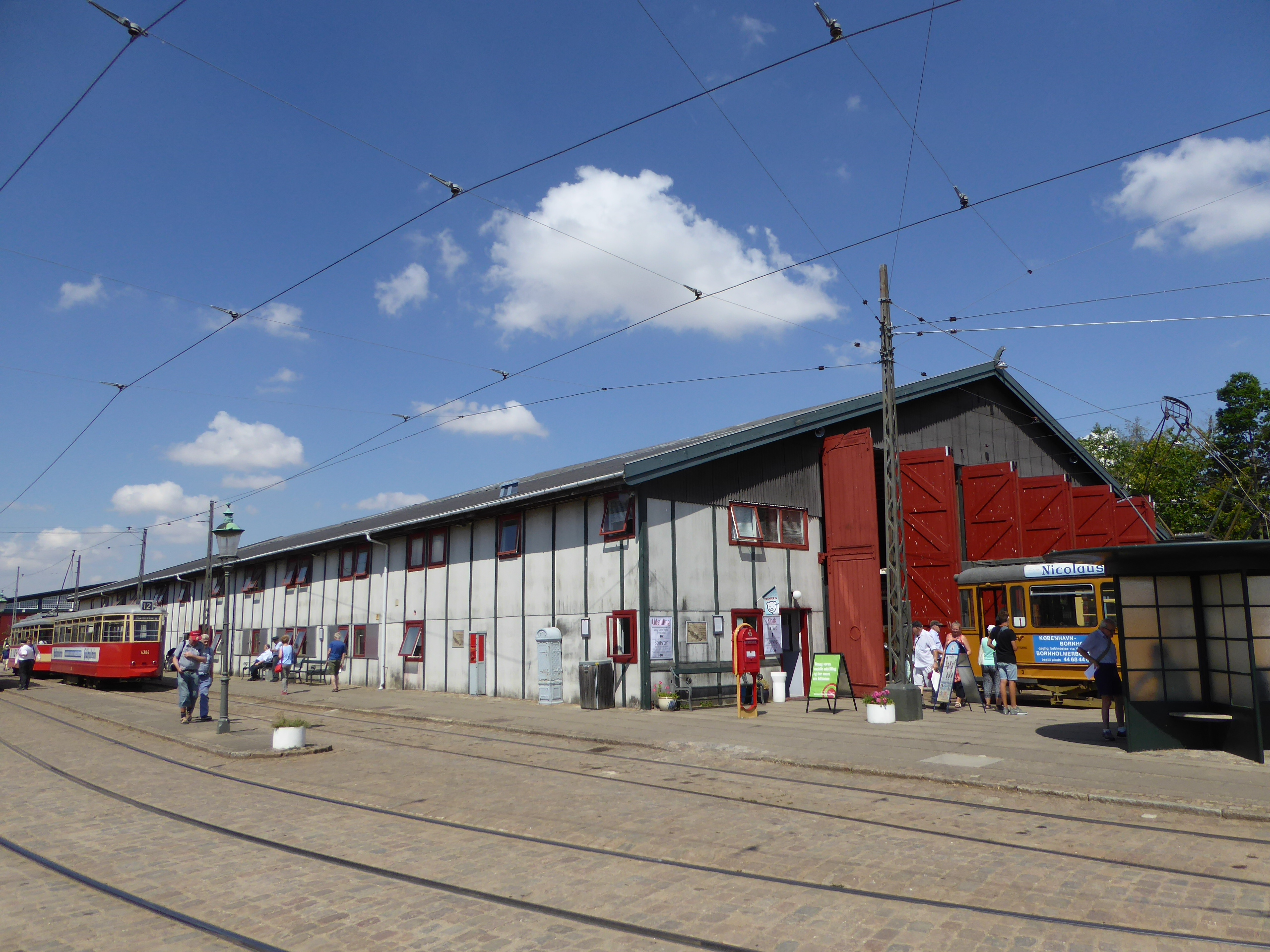 The tram depot Remise 1 at Sporvejsmuseet Skjoldenæsholm in Denmark. The depot was build in 1975-1977 prior to the opening of the museum in 1978.